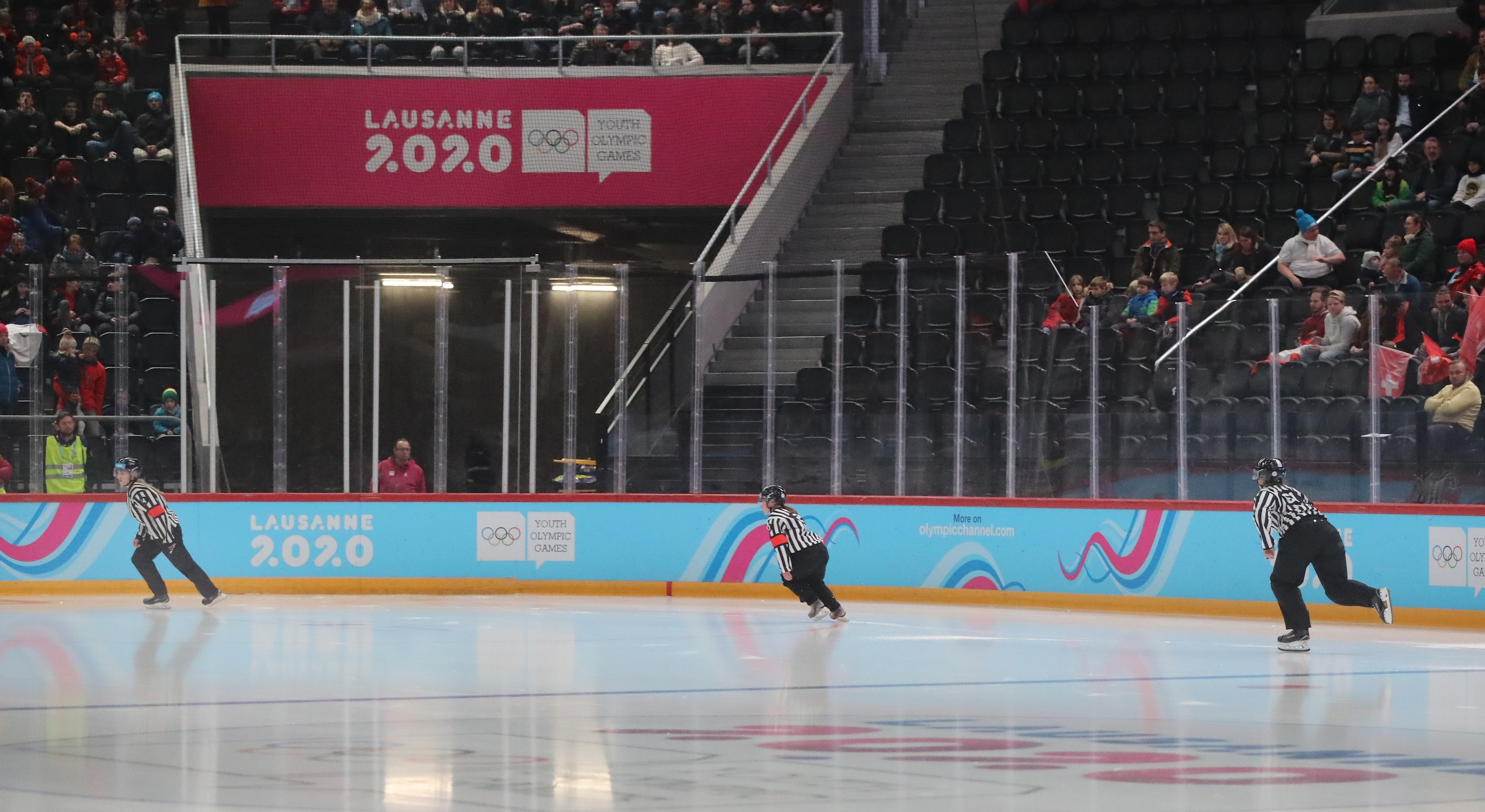 Ice hockey Women's Tournament preliminary match at the 2020 Winter Youth Olympics in Lausanne on 17 January 2020: Czech Republic vs. Switzerland.